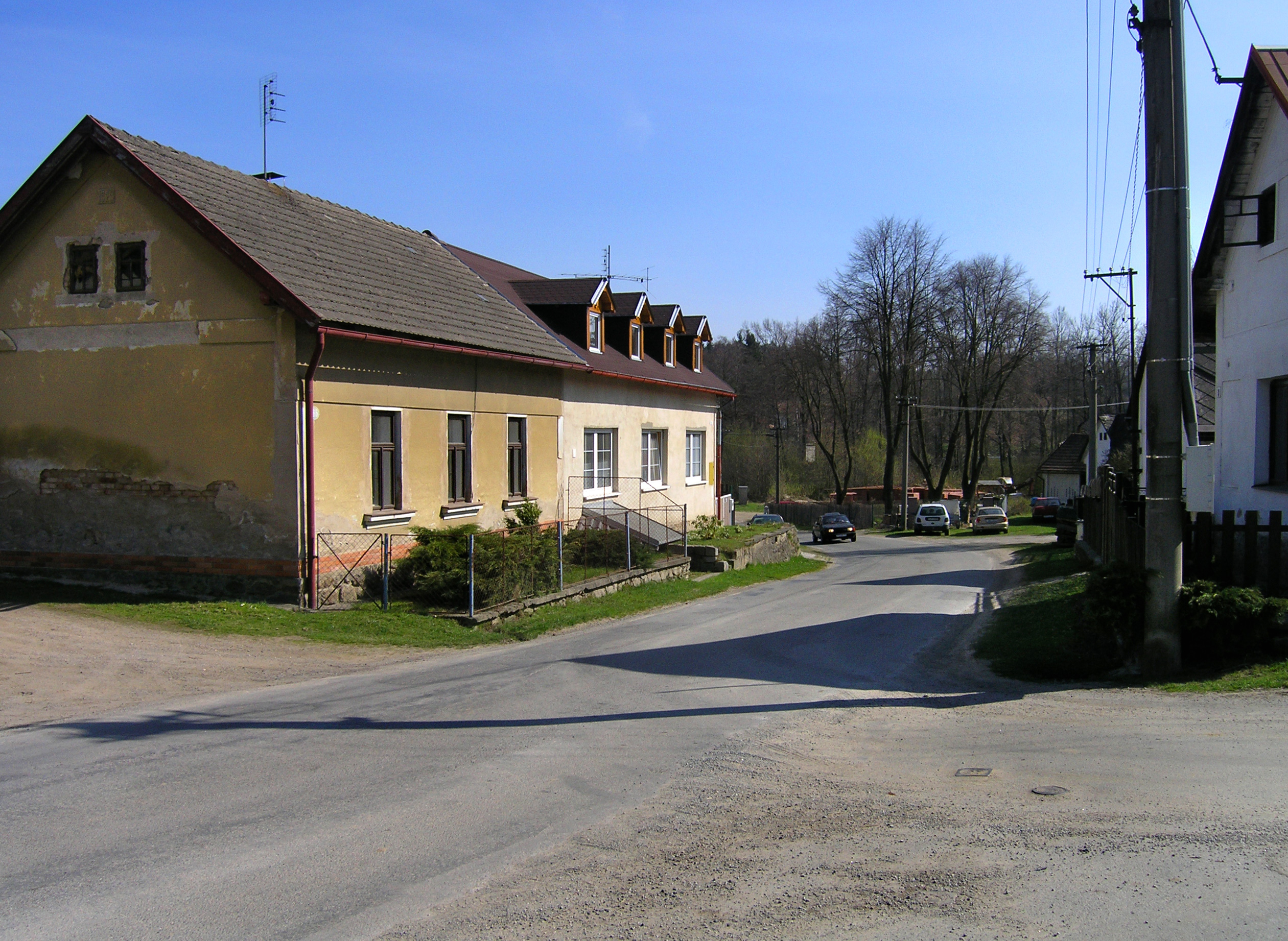 Road to Humpolec downtown in Světlice, part of Humpolec, Czech Republic